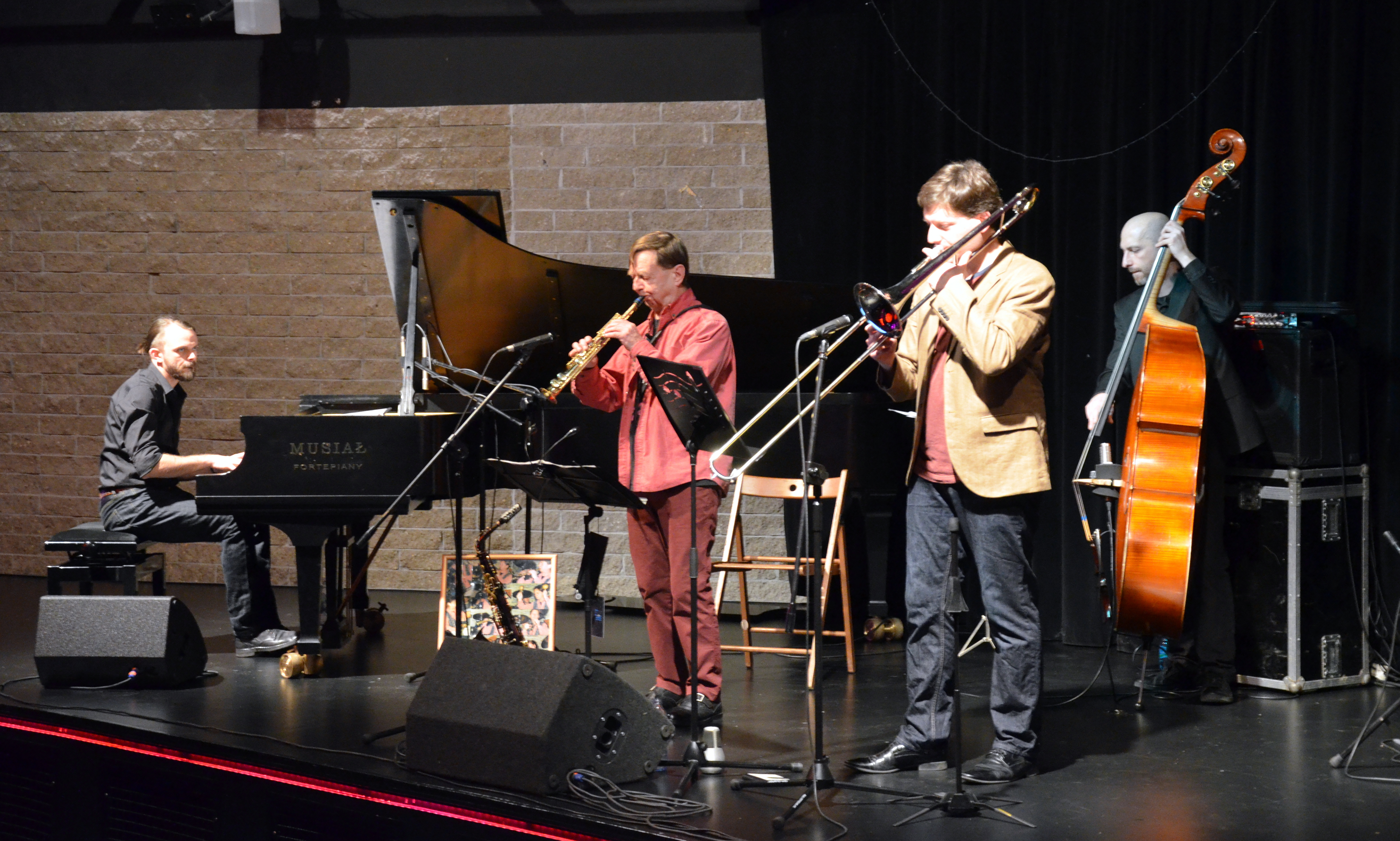 Konzert des Zbigniew Namysłowski Quintet im Klimat-Klub